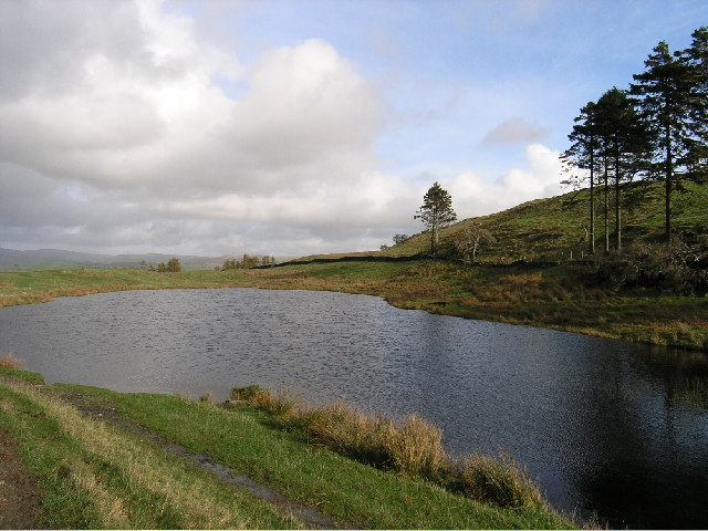 School Knott Tarn. 15 mins walk from Windermere, is this delightful little tarn.